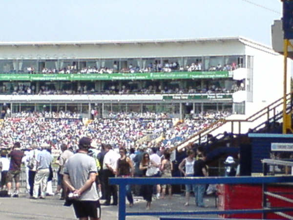 Tom L